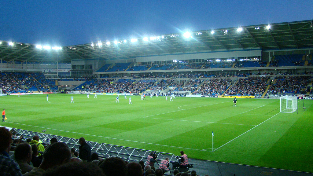 Opening game at the Cardiff City Stadium, Cardiff City vs. Celtic on 22 July 2009, Cardiff, Wales